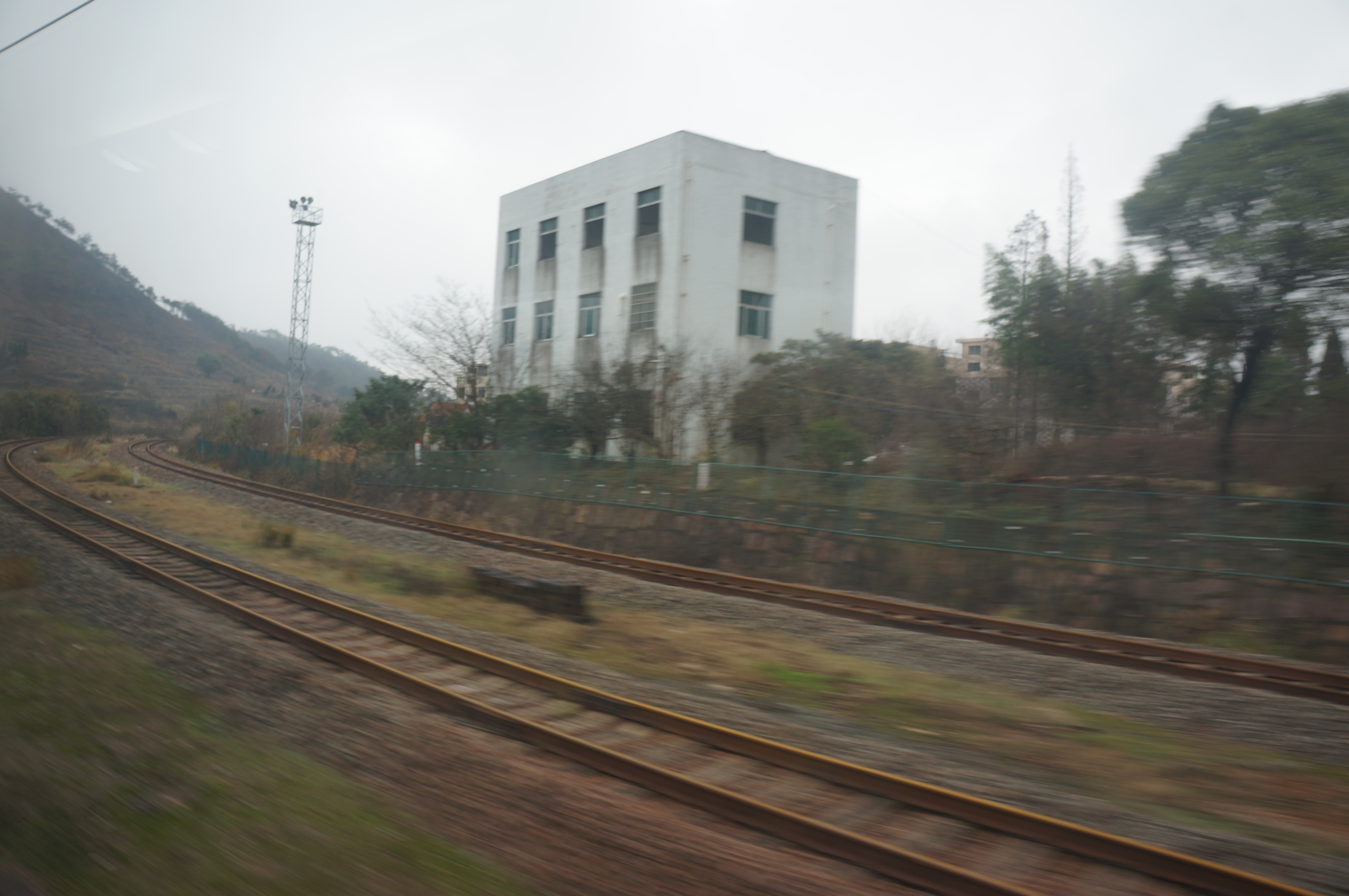 201901 Military Oil Supply Line at Yiwuxi Station